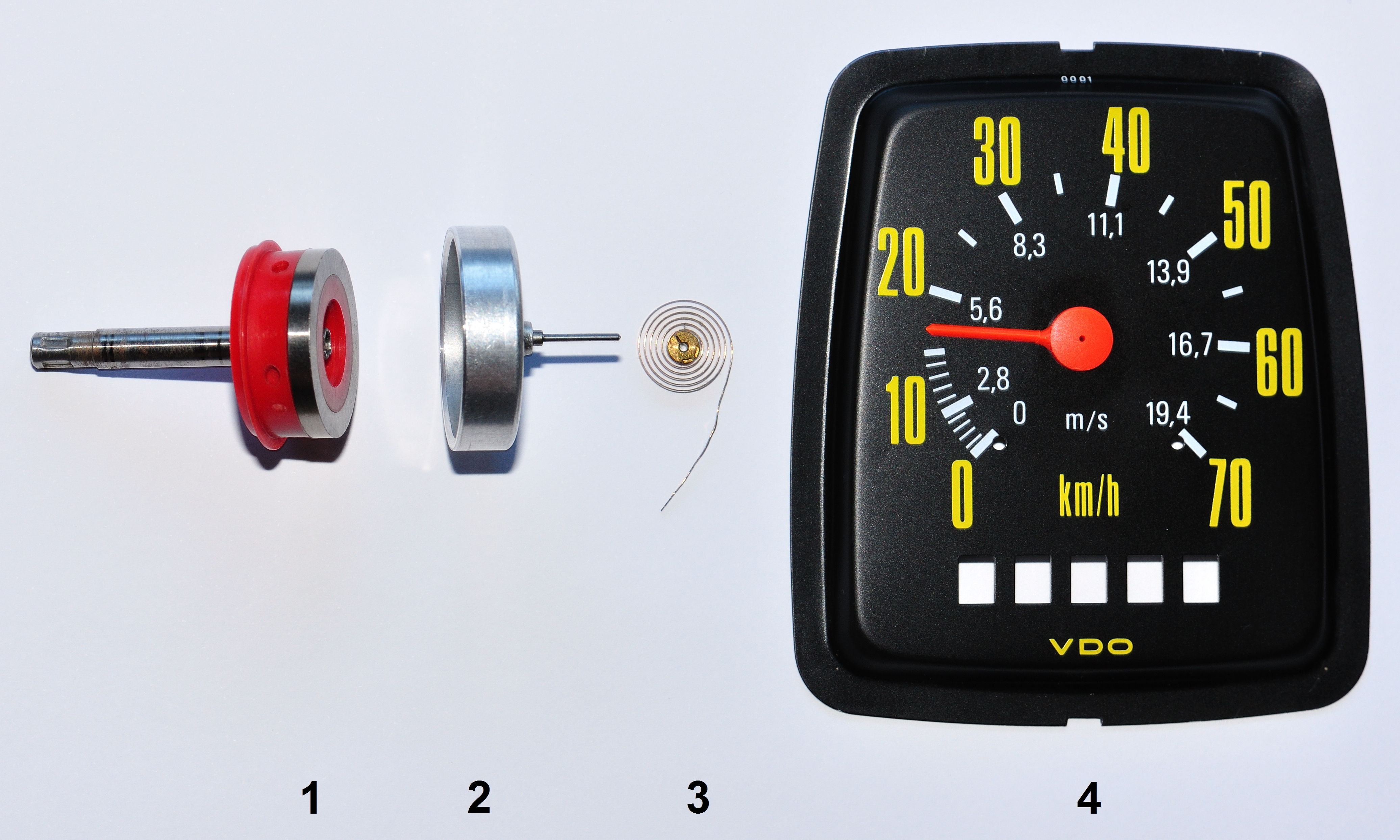 decomposed eddy current speedometer - Permanent magnet by a flexible shaft moving. - Bell made of electrically conductive material, here Aluminium. - Restoring spring. - Pointer with a scale, calibrated in km/h.